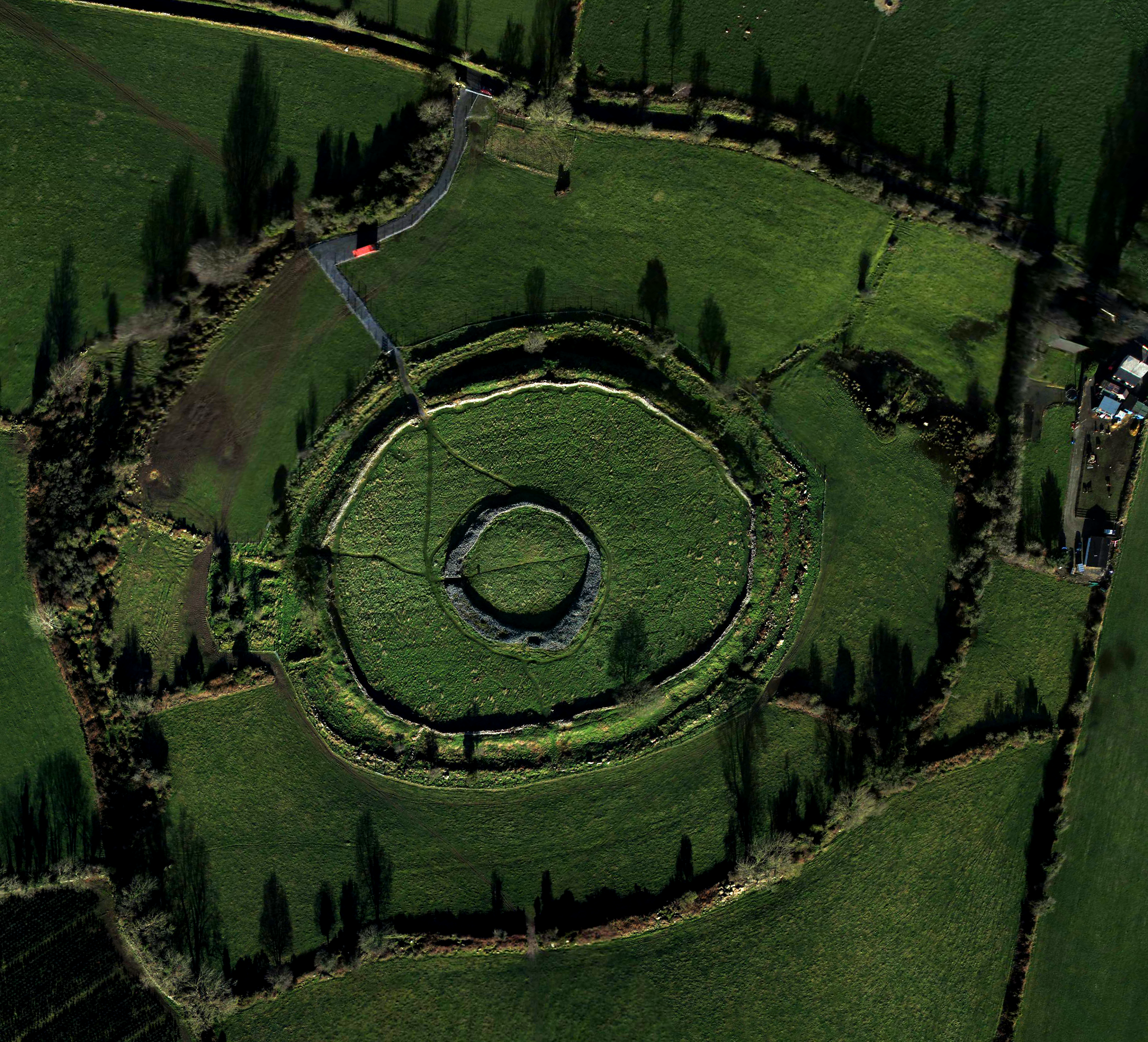 Rathgall Hillfort near Shillelagh, County Wicklow